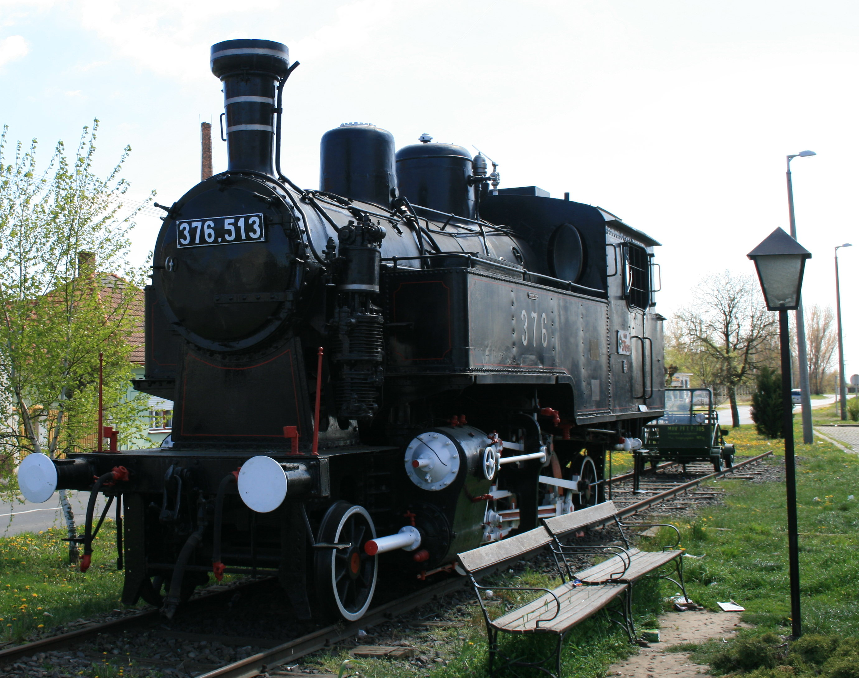 Steam locomotive in Hungary, displayed in Mátészalka, North-Eastern Hungary